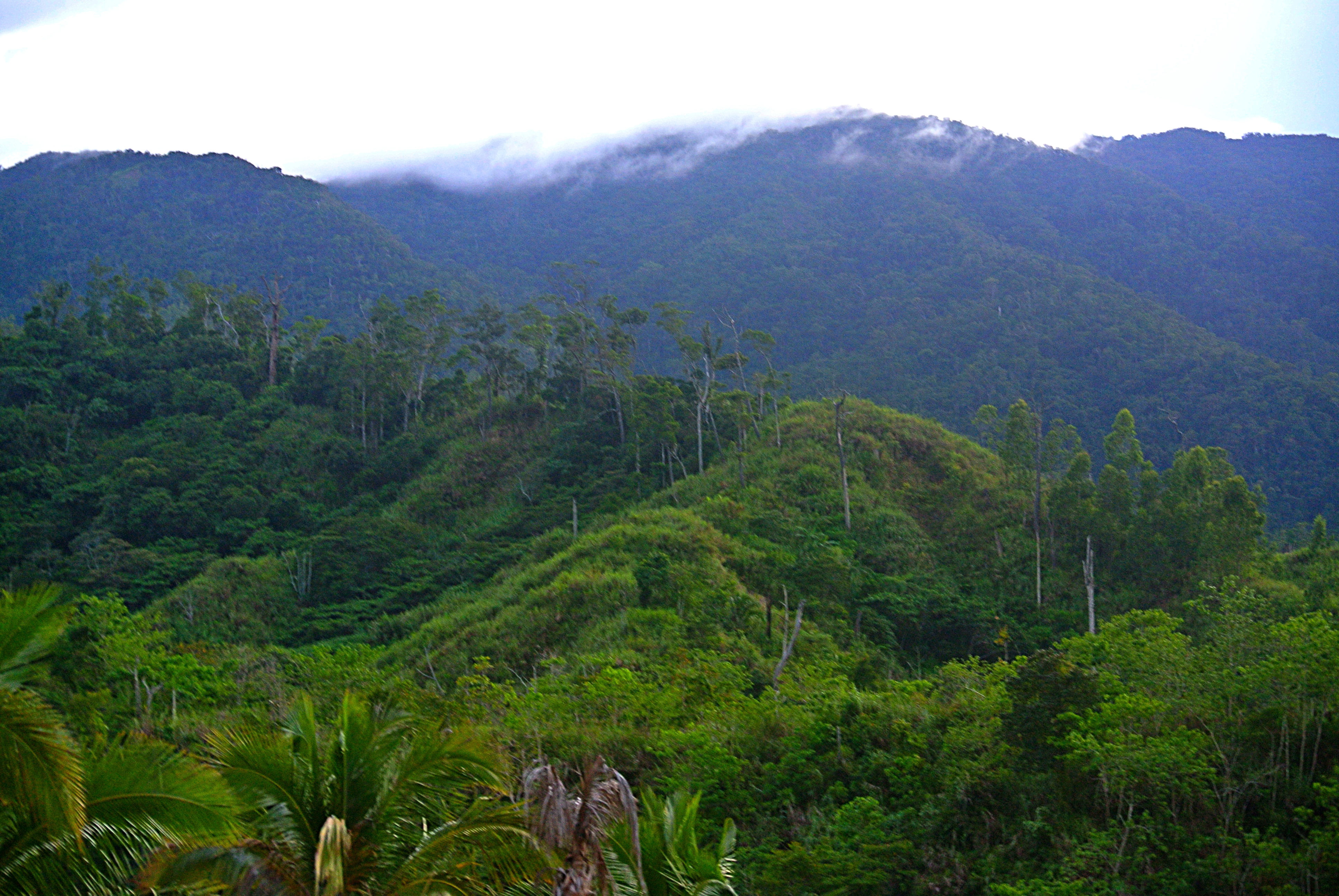 Sierra Madre is the most lush green vegetation found in the Northern Philippines. You can view the great sight of the mountain in Quirino, Isabela and Aurora provinces. You may also cross the Sierra Madre mountain range when travelling from Quirino province to Aurora. One of the protected areas of DENR because of its rich flora and fauna.